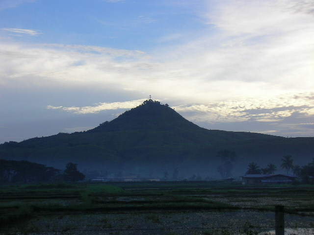 Musuan Peak, Maramag, Bukidnon